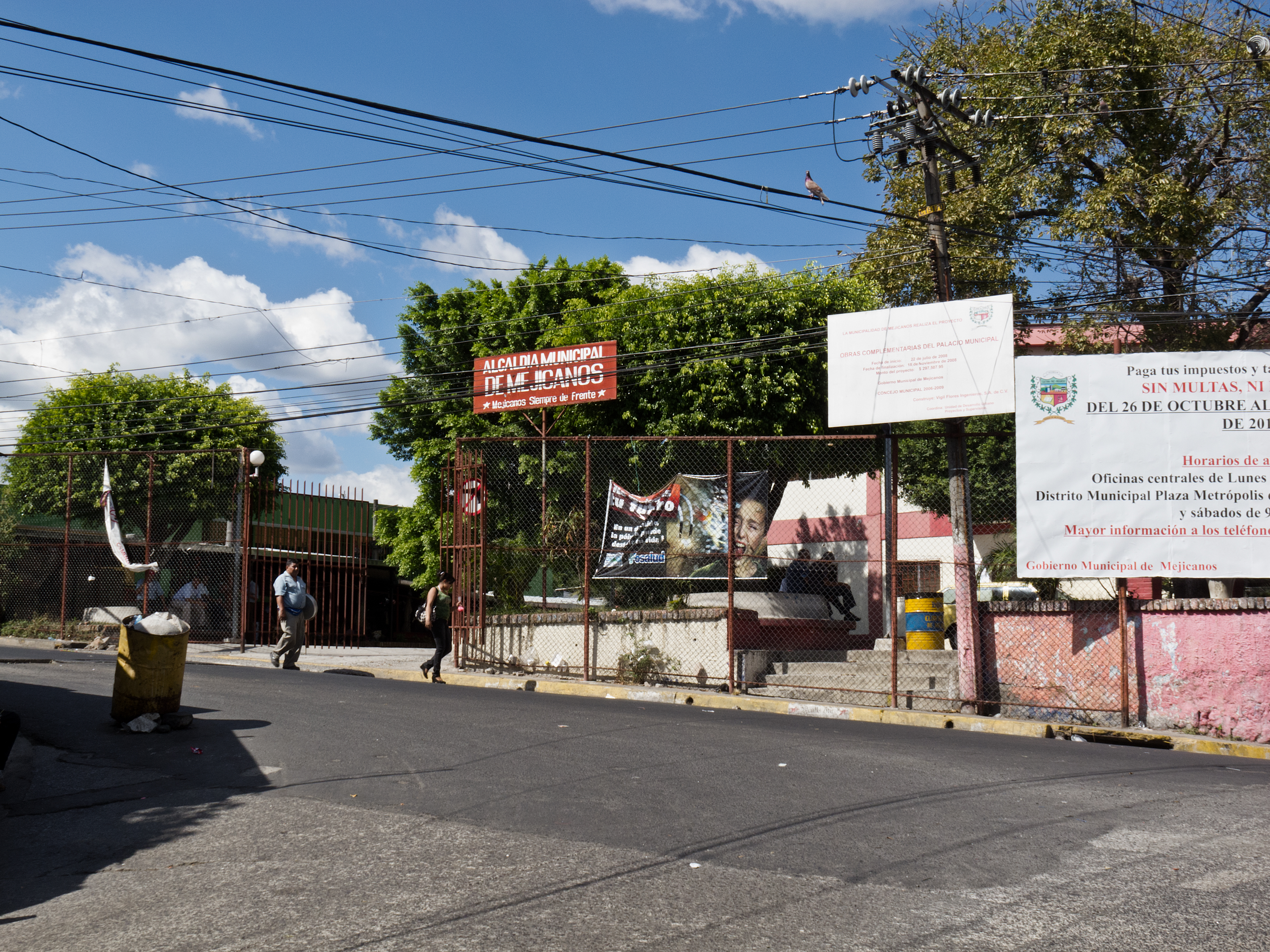 City Hall (entrance) of Mejicanos, El Salvador